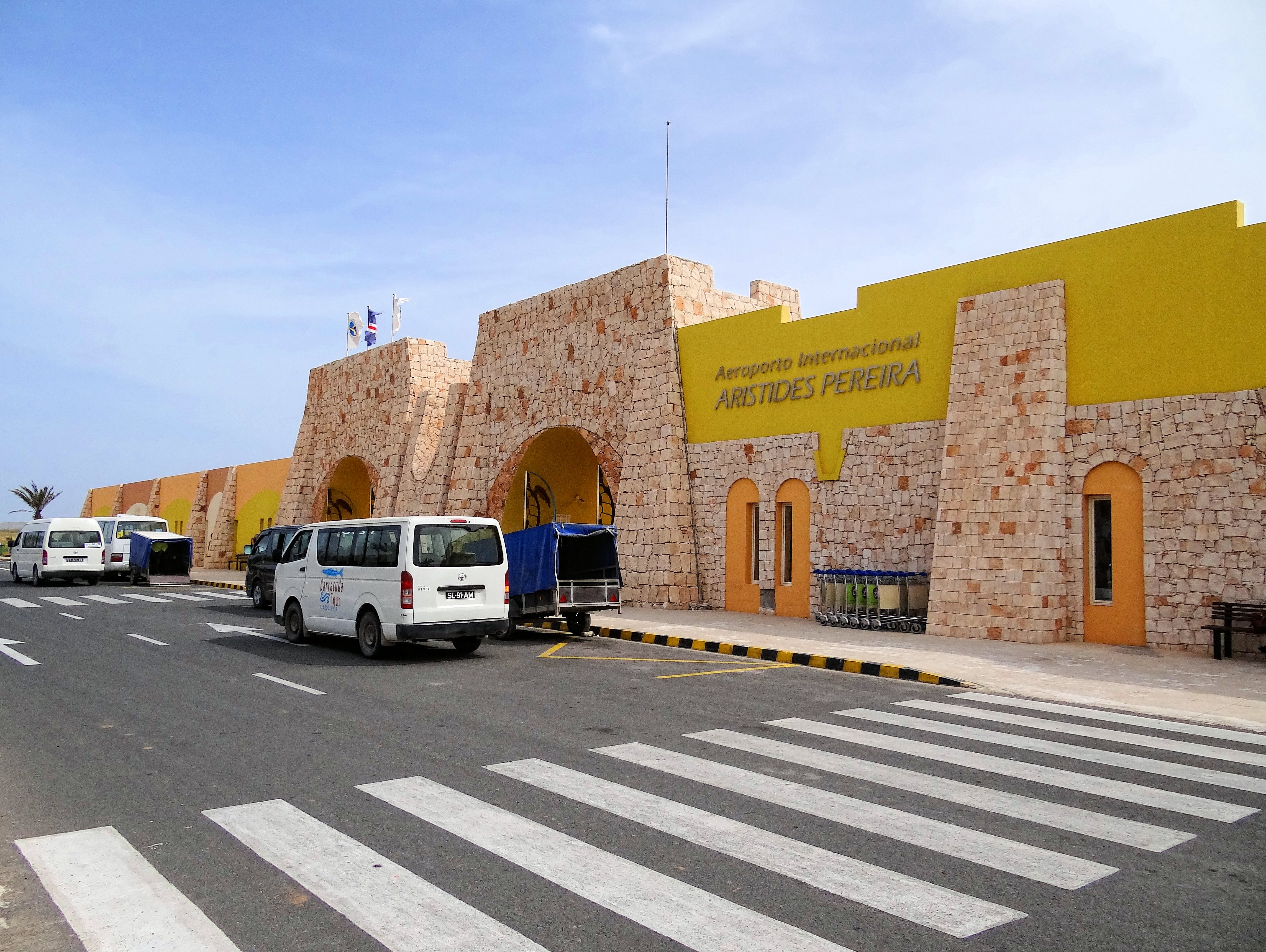 The terminal building of the Aeroporto Internacional Aristides Pereira (BVC) on Boa Vista, Cape Verde.